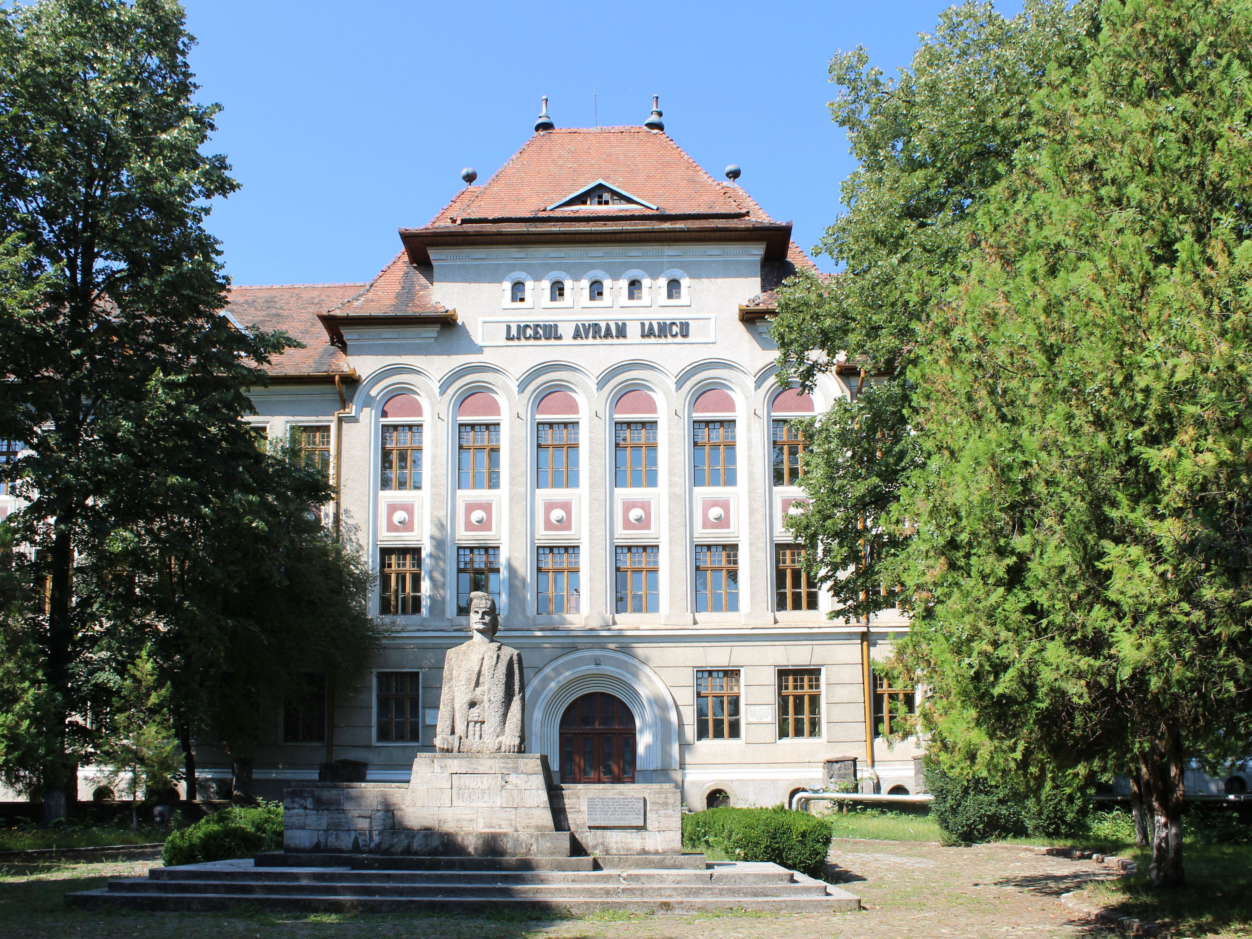 Avram Iancu high school in Brad, Hunedoara County, Romania, 2016